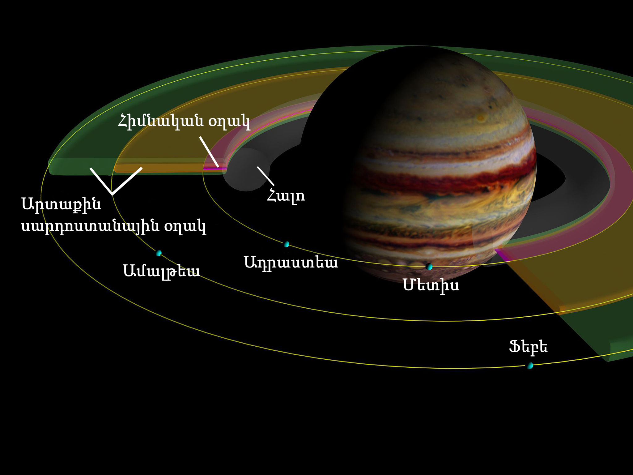 A schema of Jupiter's ring system showing the four main components.